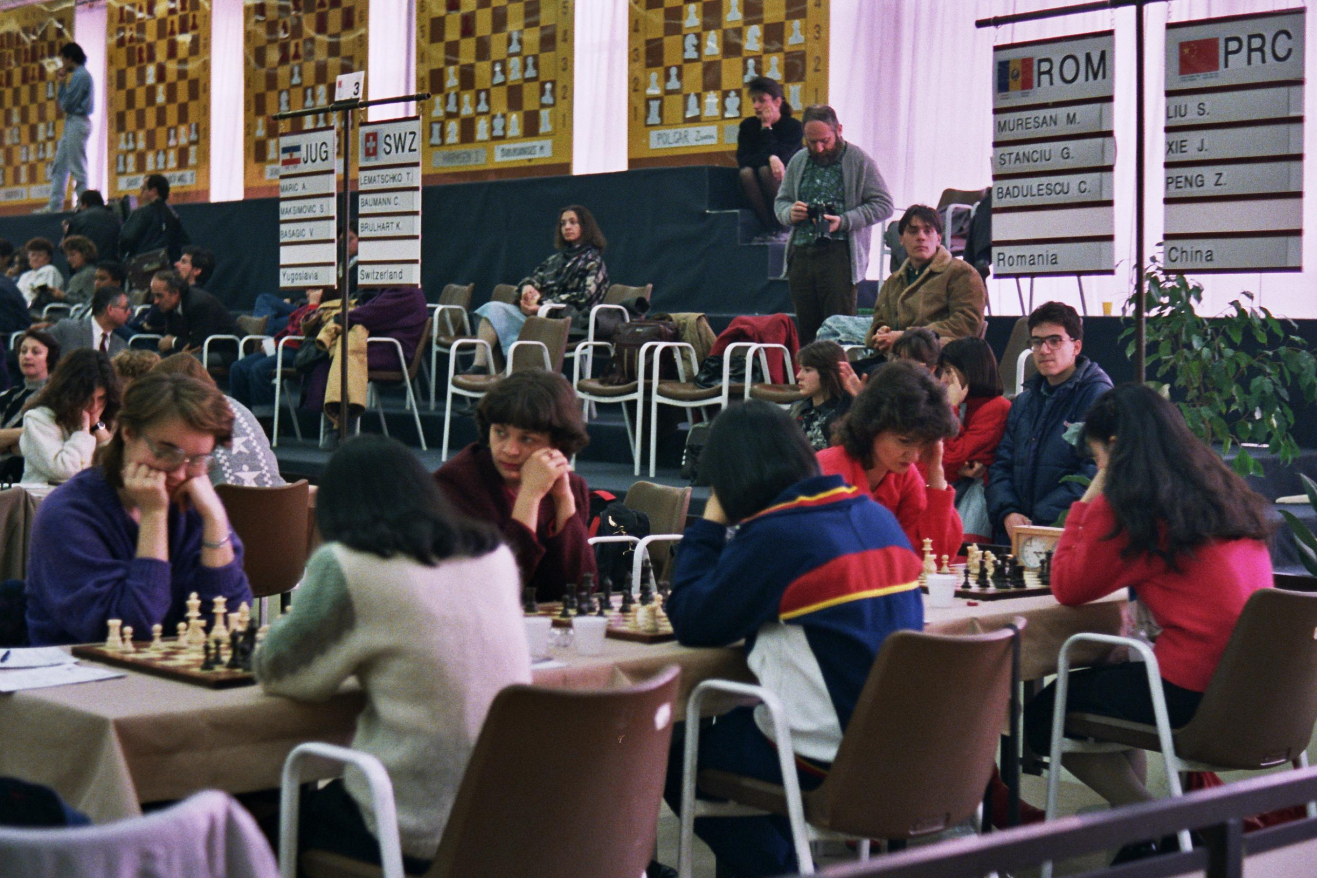 Romania - China, Chess Olympiad 1988 in Thessaloniki, Photographer Gerhard Hund.